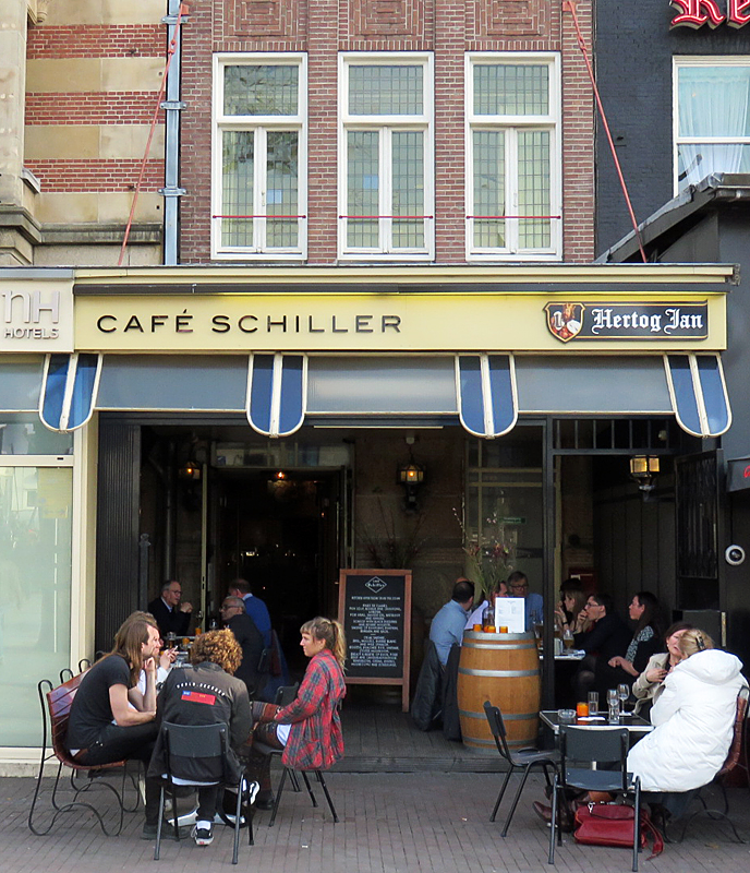 Exterior of the Cafe Schiller (est. 1921 or 1922) at Rembrandtplein 24A in Amsterdam